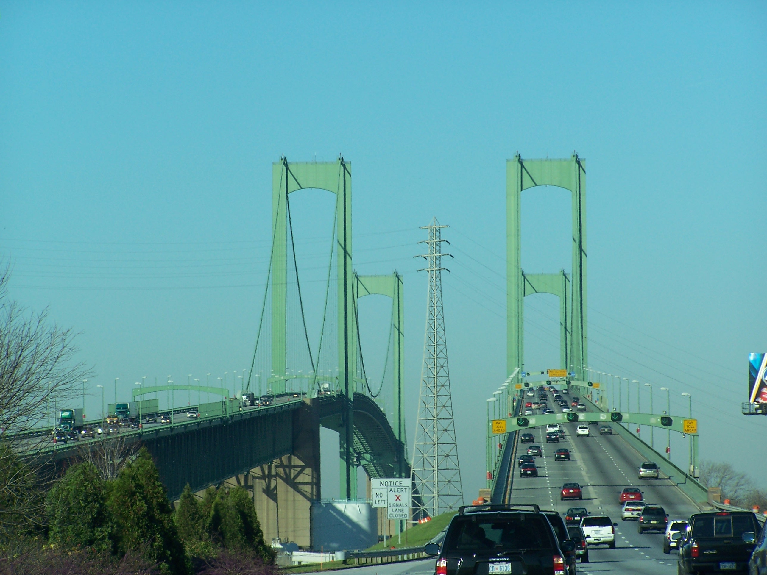 The Southbound Delaware Memorial Bridge. Taken December, 2006. May be used with credit. C. Prisciandaro